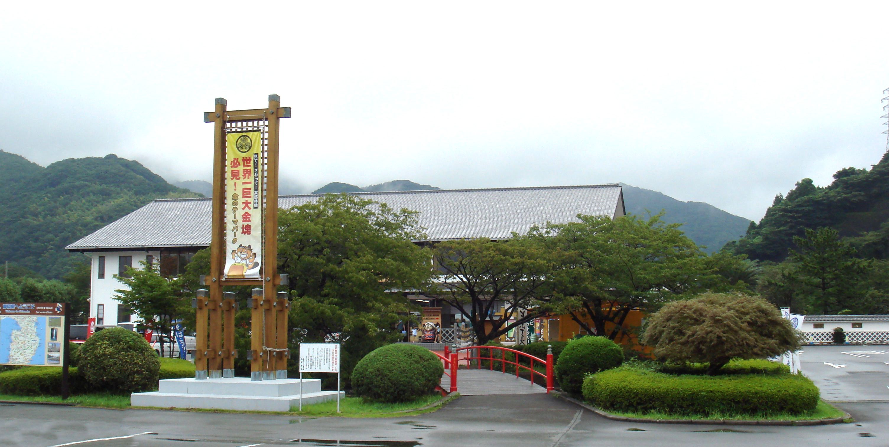 Central_building_at_the_Toi_mine complex